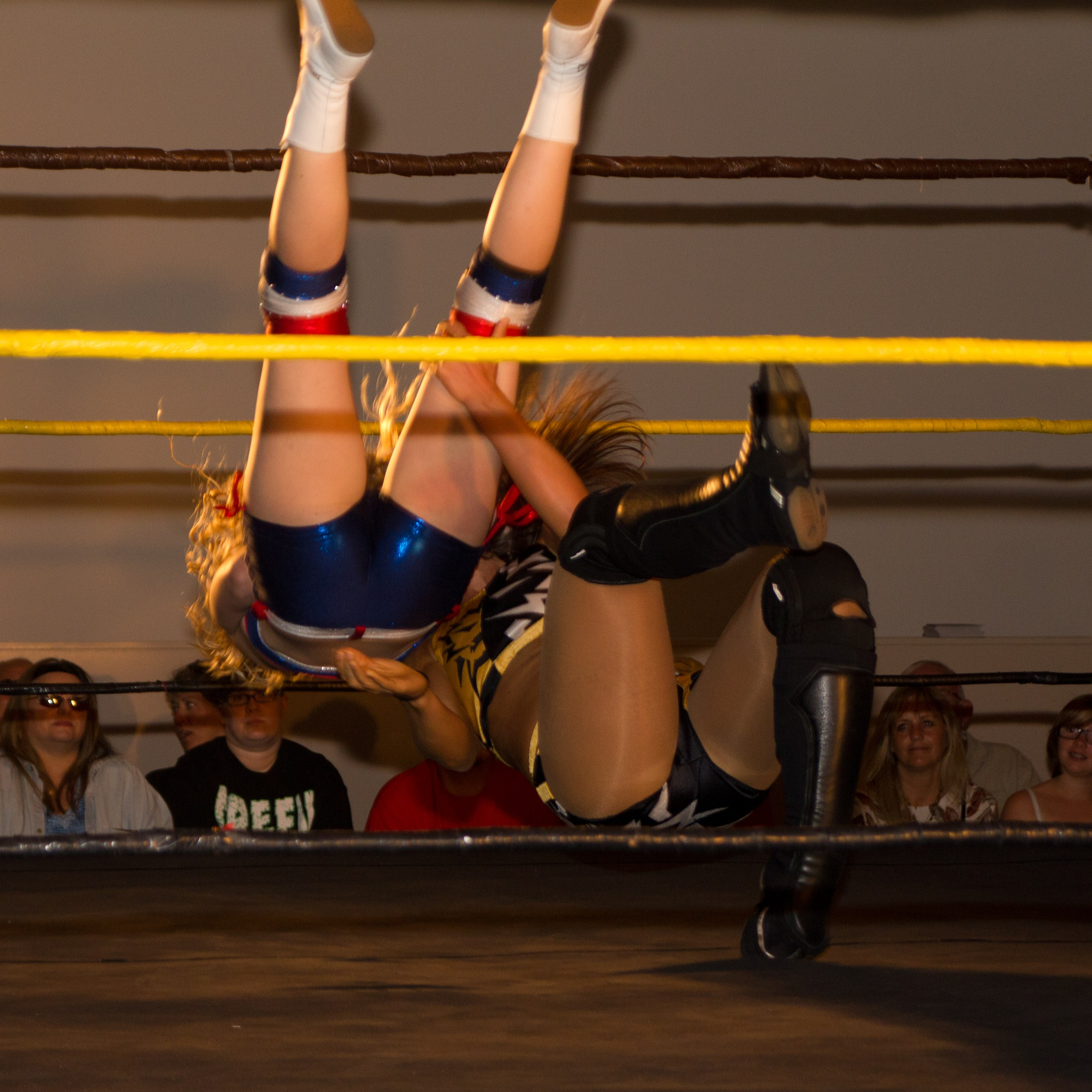 Sara Del Rey (right) executes a suplex against Leah von Dutch (in blue trunk) at Chikara's "The Foggiest Notion" show in Strathroy, ON